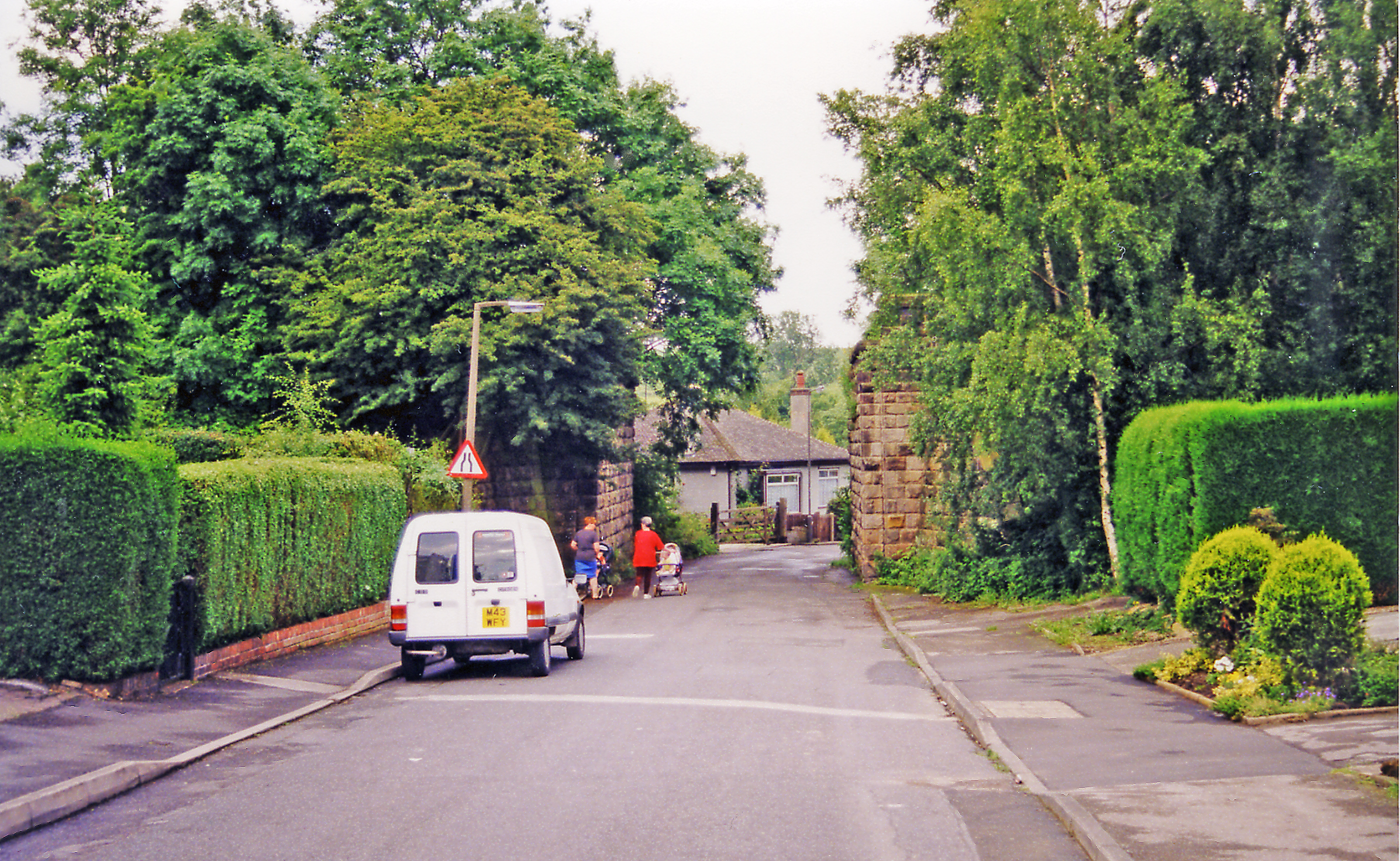 Site of Heanor North station. View northward to remaining abutments of the bridge formerly carrying the ex-Midland branch (to the right), off the Erewash Valley main line at Heanor Junction, which was between Langley Mill and Shipley Gate, through a subsidiary Langley Mill station, to Ripley (to left). This line closed from 1/9/51; the station had been on the right and had been closed since 1/5/26!